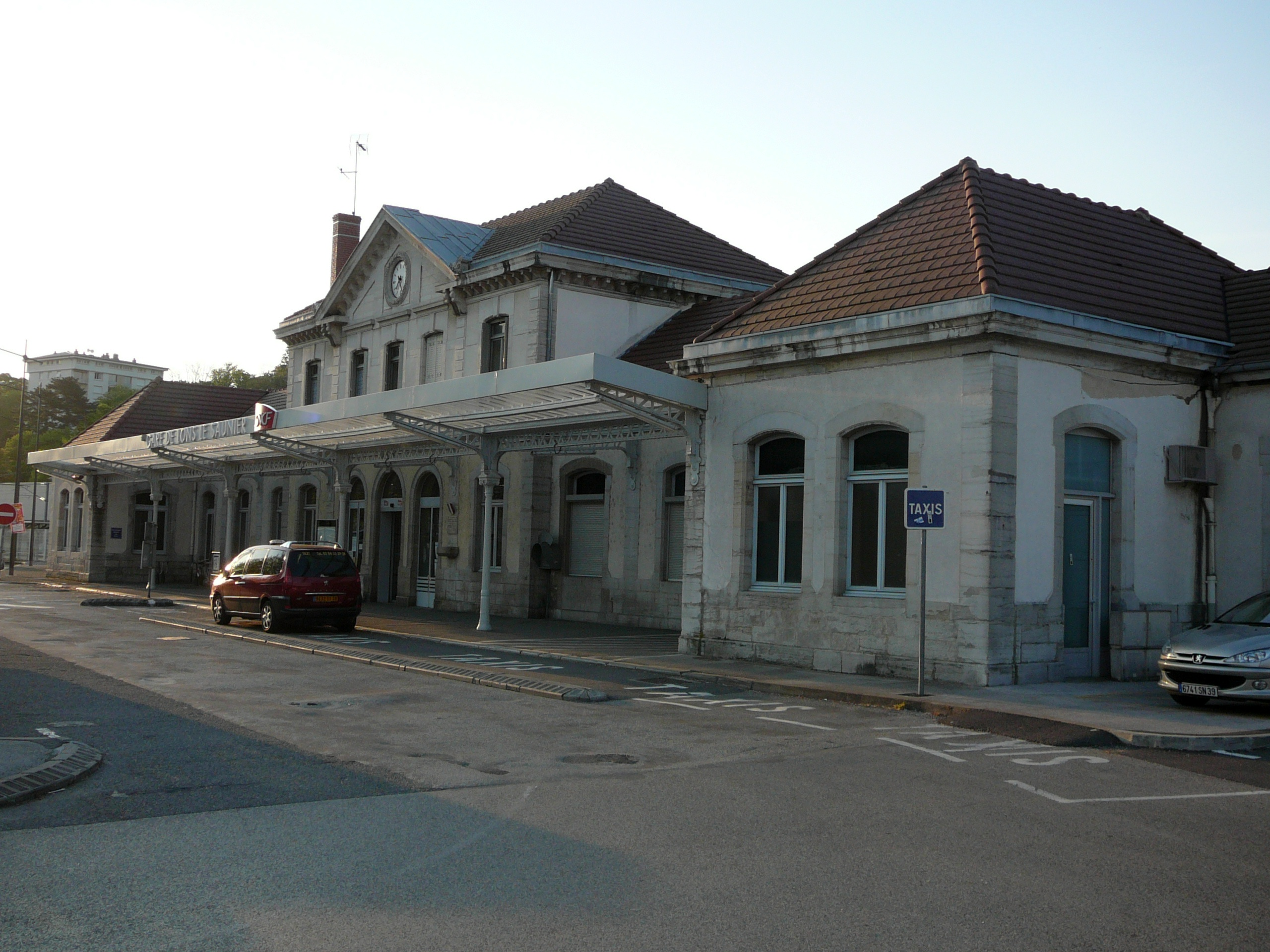 Lons le Saunier station